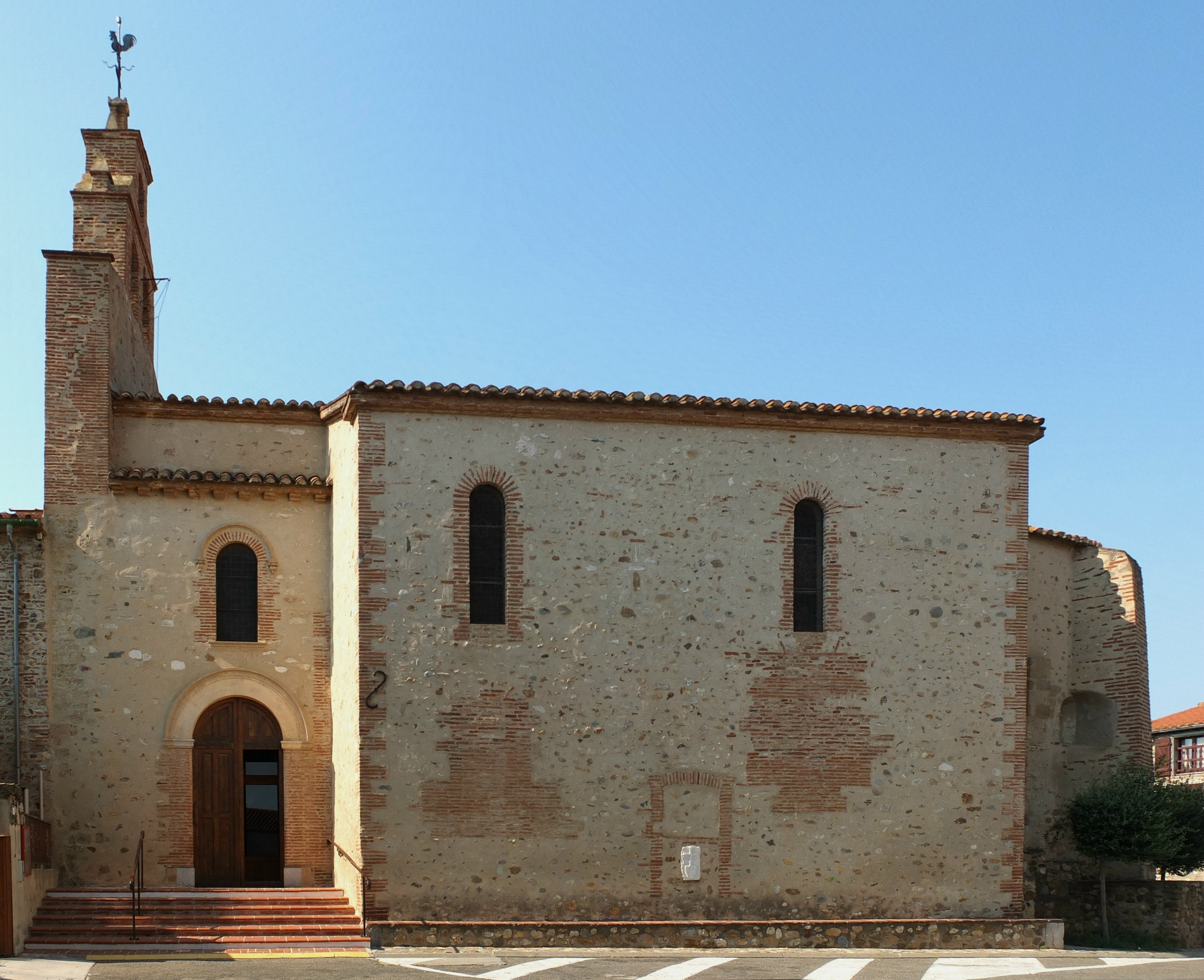 Église Saint-Cyr-et-Sainte-Julitte (view S) de Canohès, Pyrénées-Orientales, France. Base Mémoire: APHY74A_35